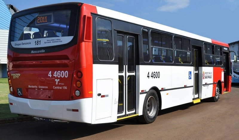 Veículo novo da Novo Horizonte